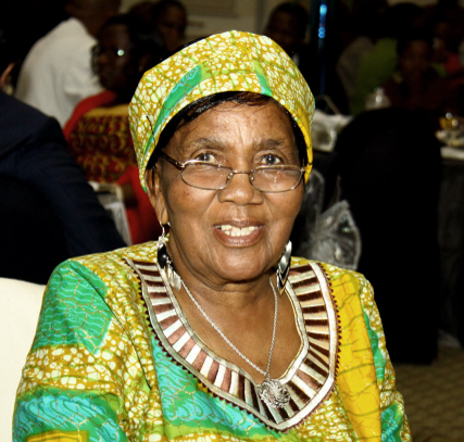 Lady Gladys Olebile Masire – Mma Gaone